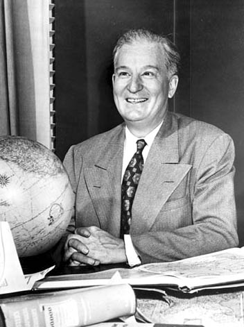 Photo of Everett Mitchell as the host of NBC's National Farm and Home Hour The photo has no copyright markings on it as can be seen in the links above.